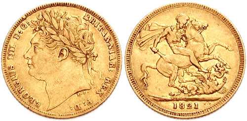 George IV of the United Kingdom. 1820-1830. AV Sovereign (22mm, 7.91 g, 6h). Dated 1821. Laureate head left Pistrucci's St. George slaying the Dragon; date below. Schneider II 632; SCBC 3800. VF.